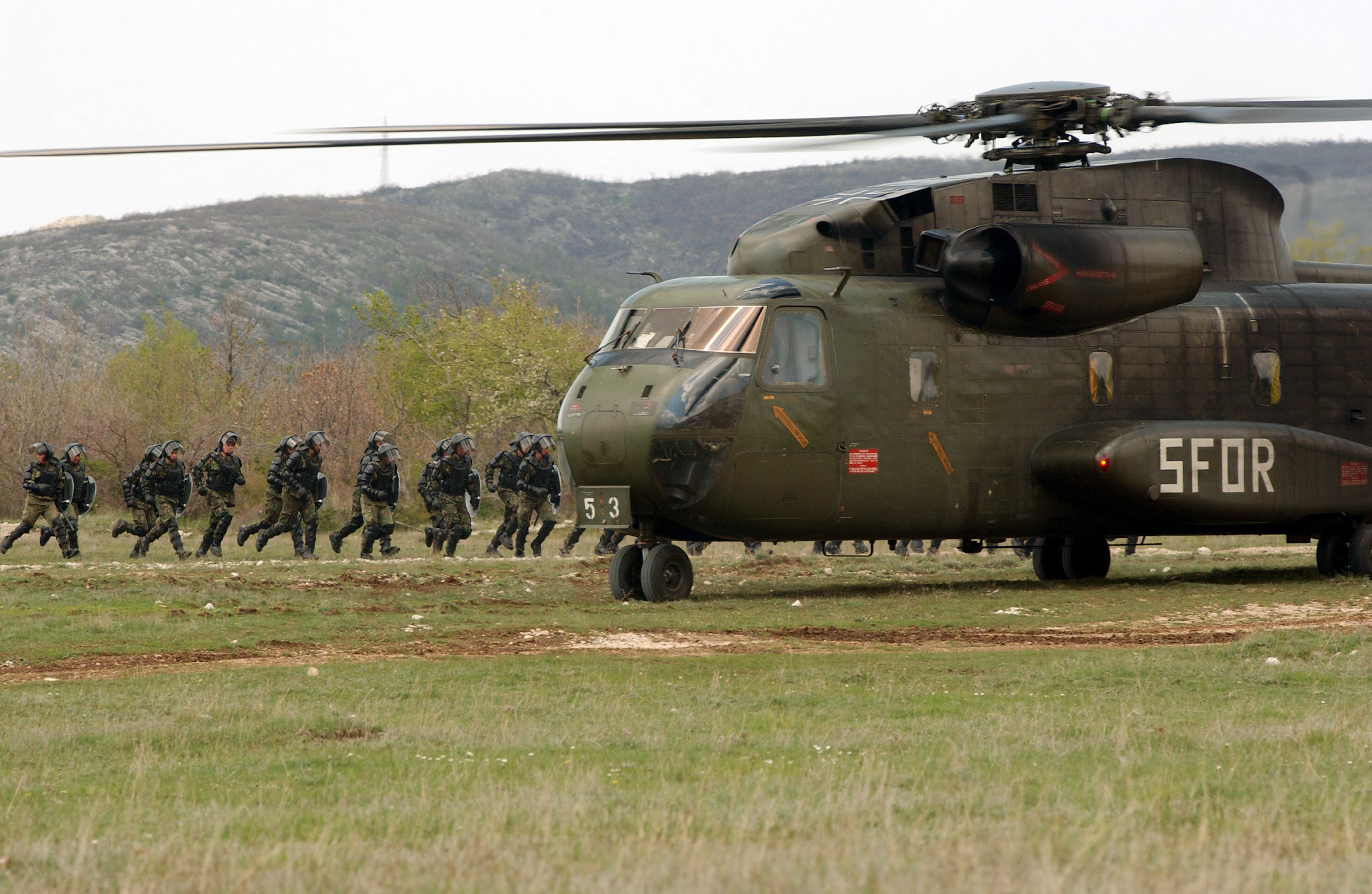 A German Army H-53 Helicopter assigned to the Stabilization Force (SFOR) lands to extract a Reaction Force made up of Portuguese Army Soldiers dressed in personal protective armor, during a riot control exercise at Trebinje, Bosnia and Herzegovina (BiH), during Exercise JOINT RESOLVE 26.